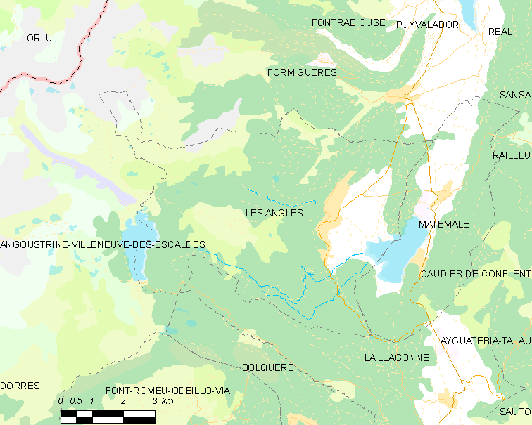 Map of French municipality